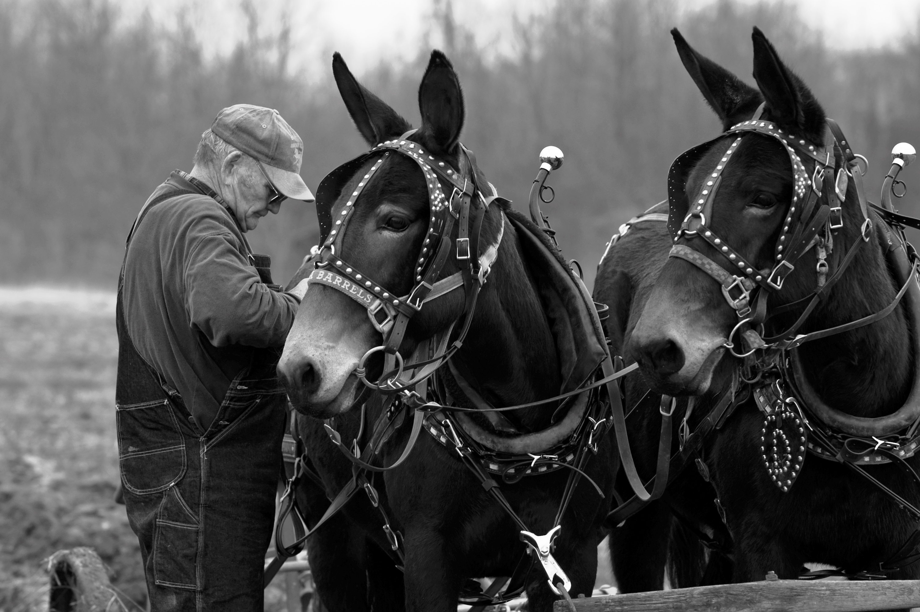 This pair of mules were working a plowing exhibition at The Farnsley-Moreman House in Louisville, Kentucky.